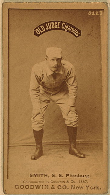 Pop Smith